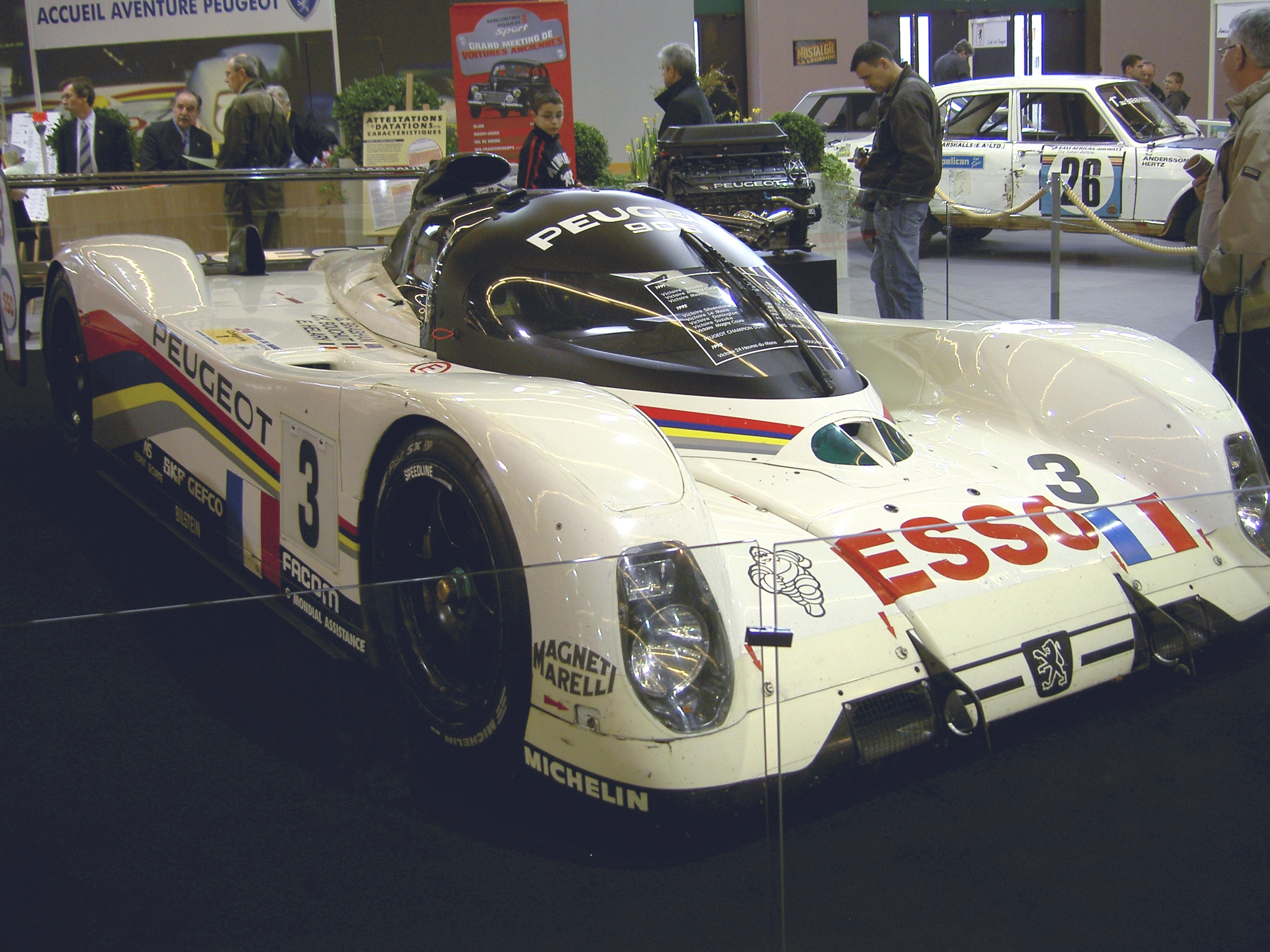 Peugeot 905B (French race car, winner of: World Sportscar Championship season (1992) 24 Heures du Mans (1993) Silverstone (1992) Donington (1992) Suzuka (1992) Magny Cours (1992)).